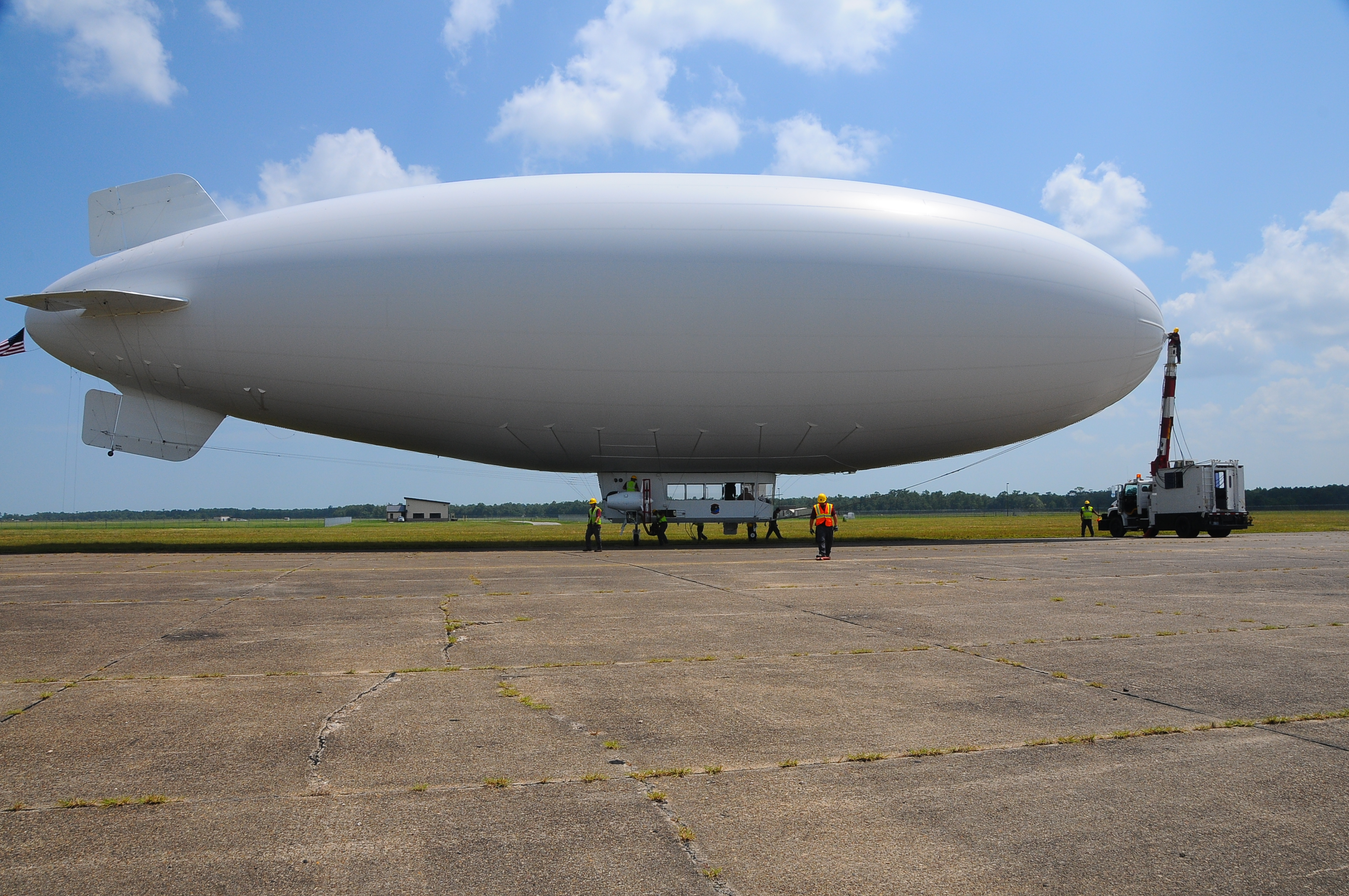 MOBILE, Ala. (July 12, 2010) A U.S. Navy MZ-3A manned airship, Advanced Airship Flying Laboratory, derived from the commercial A-170 series blimp is in Mobile, Alabama Downtown Airport prior to take-off en route assisting U.S. Coast Guard with the Gulf of Mexico oil spill. (U.S. Coast Guard photo by Petty Officer 2nd Class Gina Routi/Released)